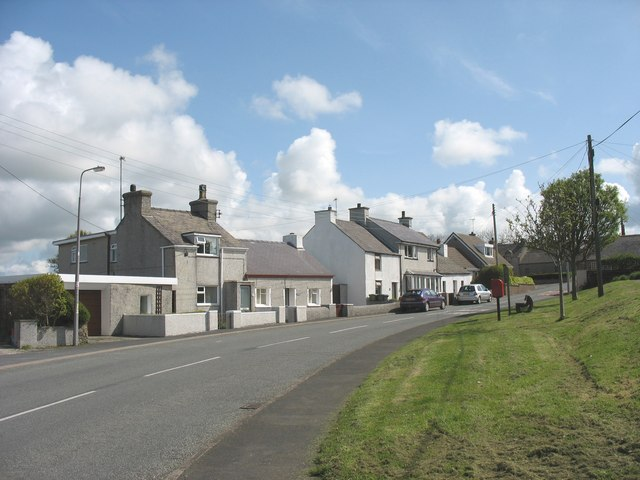 View eastwards along the A4080 at Hermon